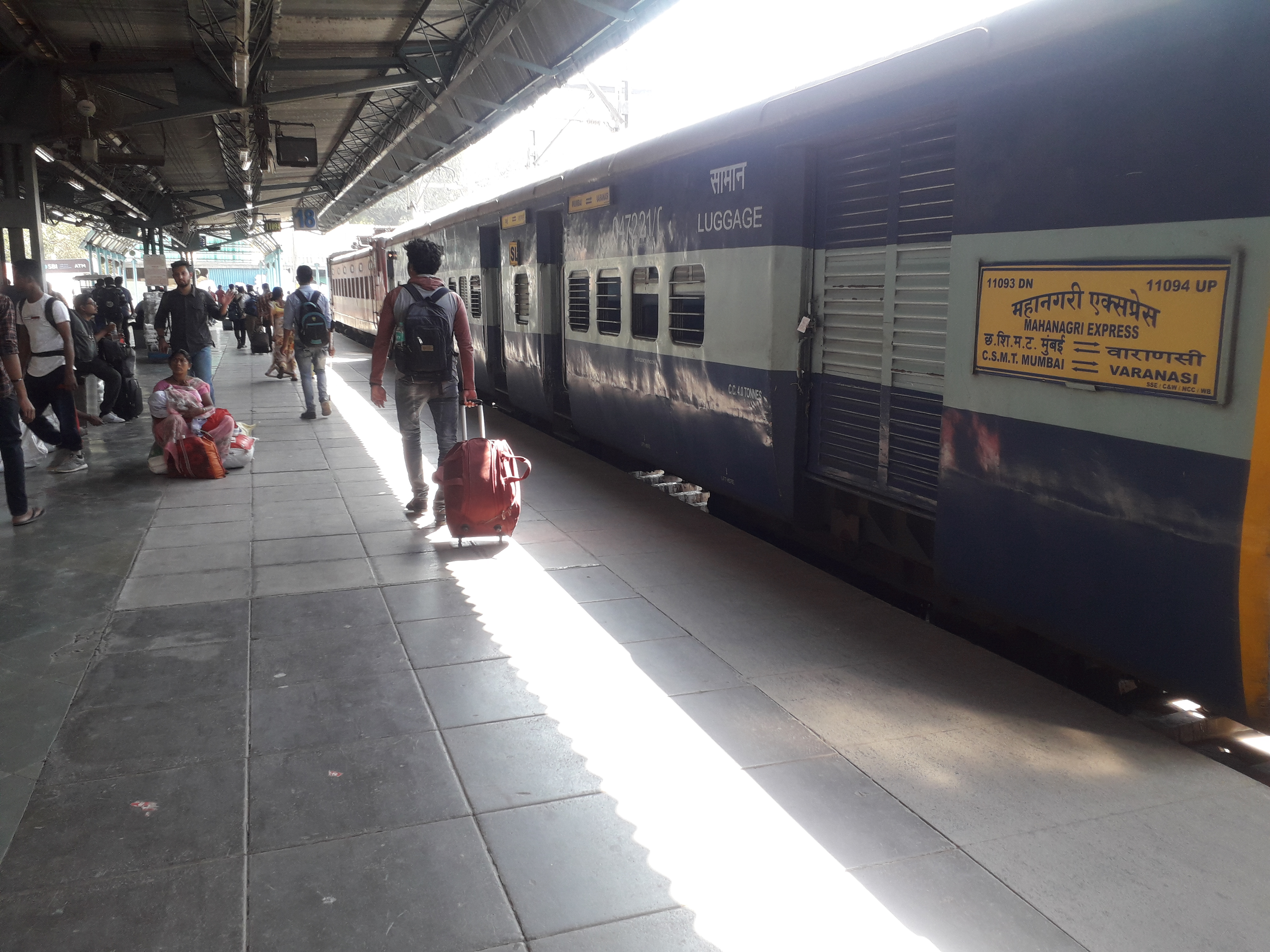 11094 Mahanagari Express with Itarsi based WAP 4